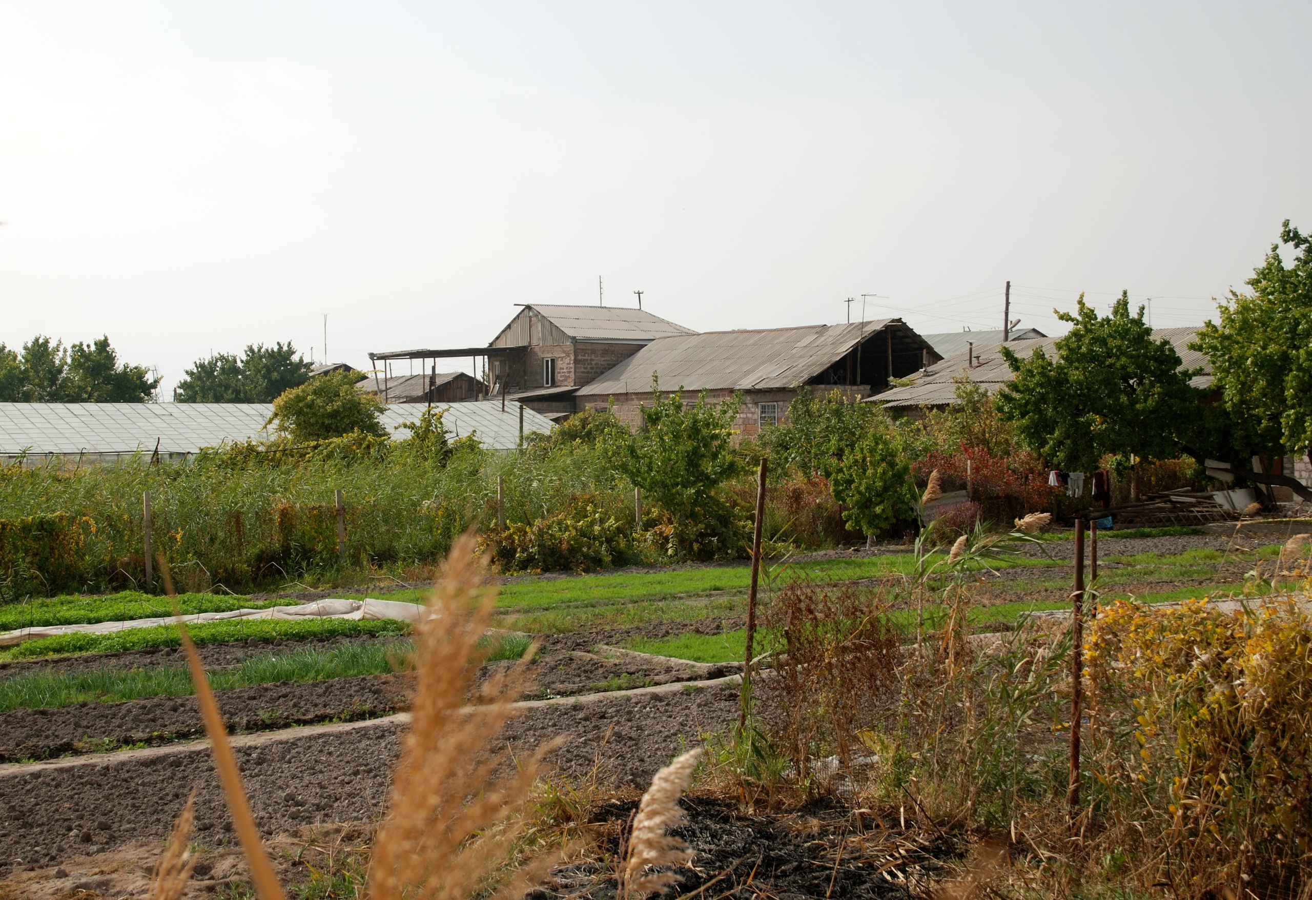 Masis